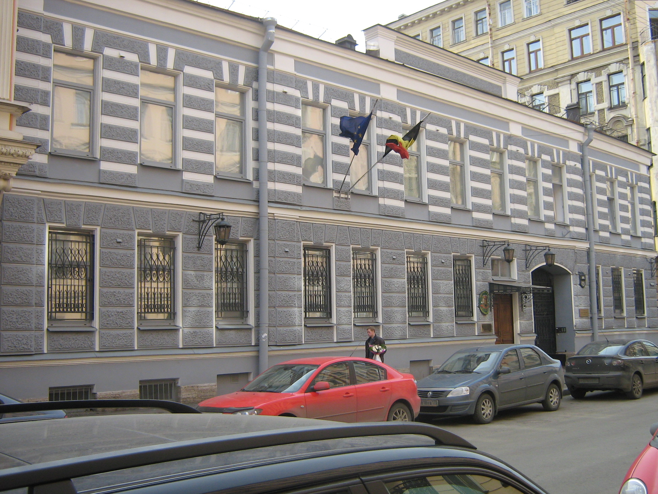 Saint Petersburg (Russia), . Belgian Consulate-General. Building was formerly used by the Iranian Consulate and Mongolian Consulate. Belgian Consulate since 2008.